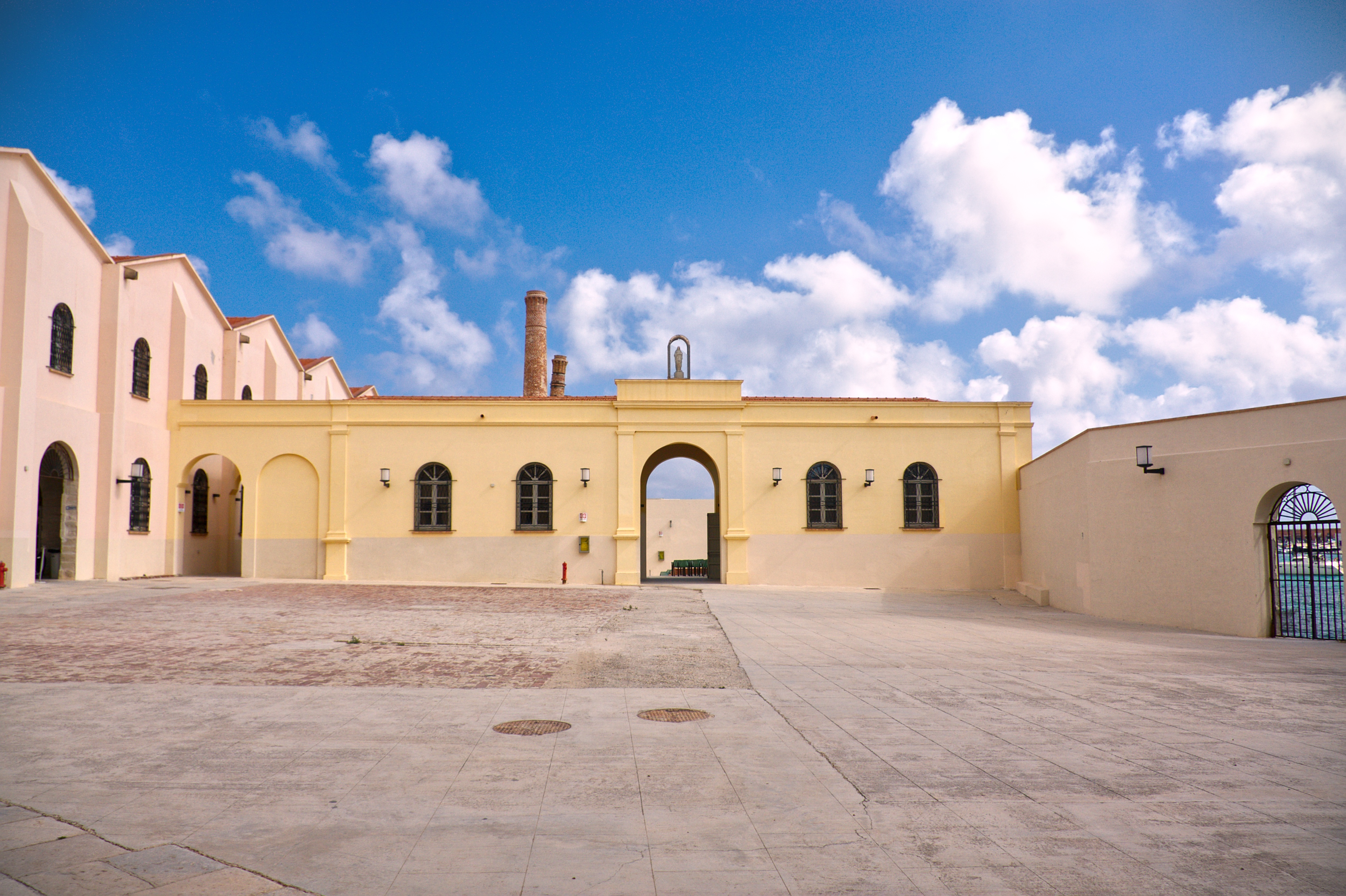 This is the courtyard of the Florio's Tonnara in Favignana, a little island close to Trapani, in Sicily. The Tonnara has been actively used for tuna fishing until the 80s. In the 90s the plant have been acquired by the Region of Sicily and now it is a museum and a conference center.